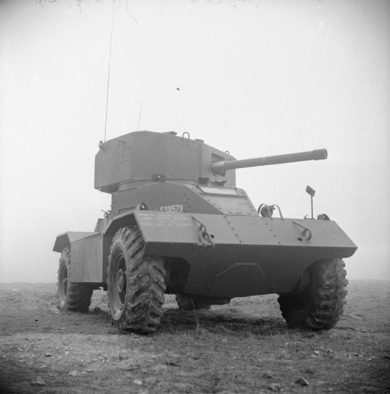 The British Army in the United Kingdom 1939-45 AEC Mk II armoured car the Armoured Fighting Vehicle School, Gunnery Wing at Lulworth in Dorset, 25 March 1943.